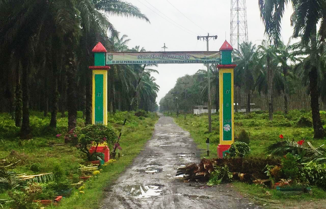 welcome gate to Perkebunan Sei Balai, Meranti, Asahan